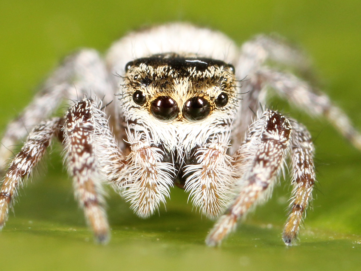 Adult female Pelegrina aeneola jumping spider collected in Yosemite Valley, Mariposa County, California.